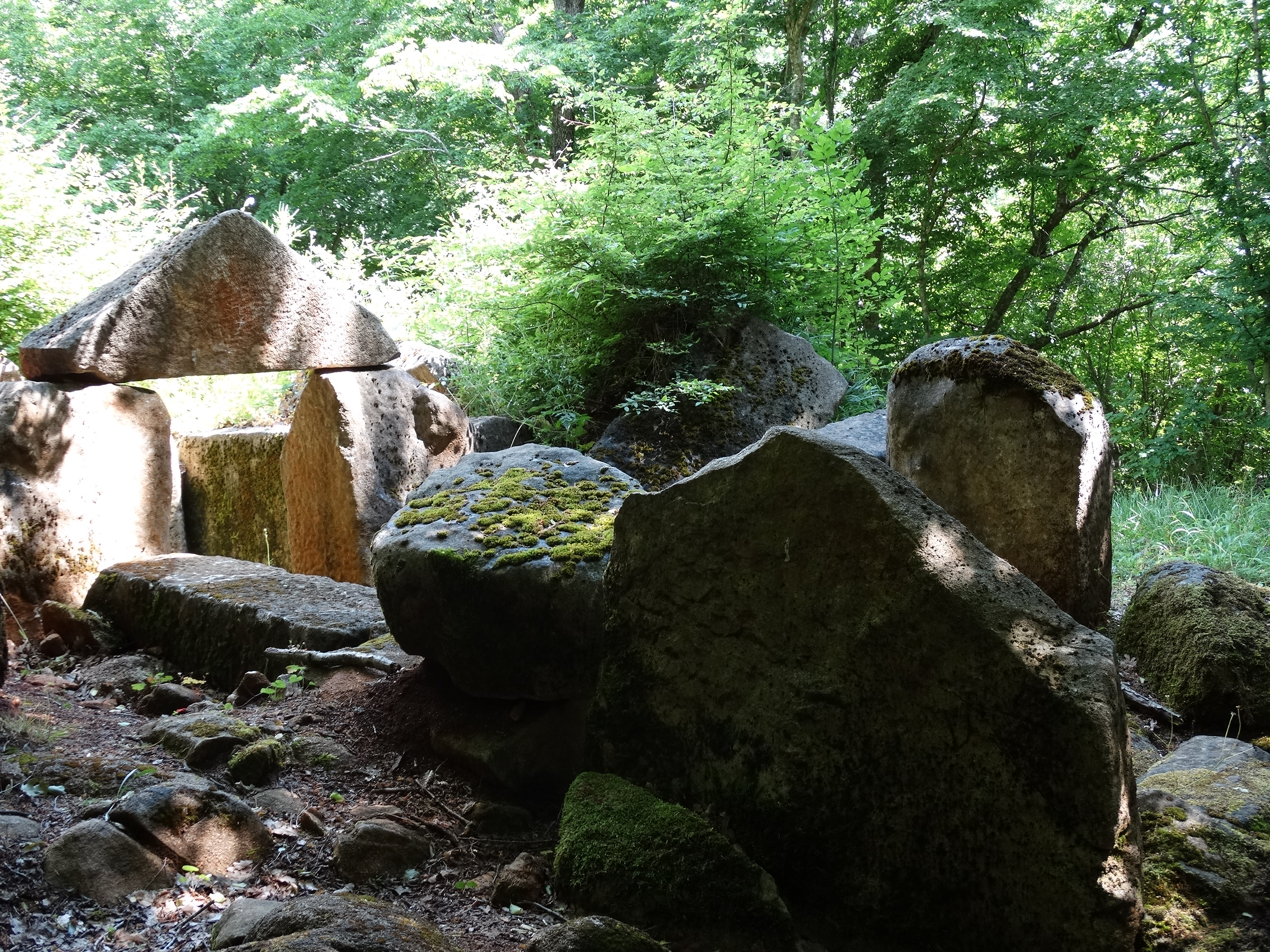 Strandzha Nature Park